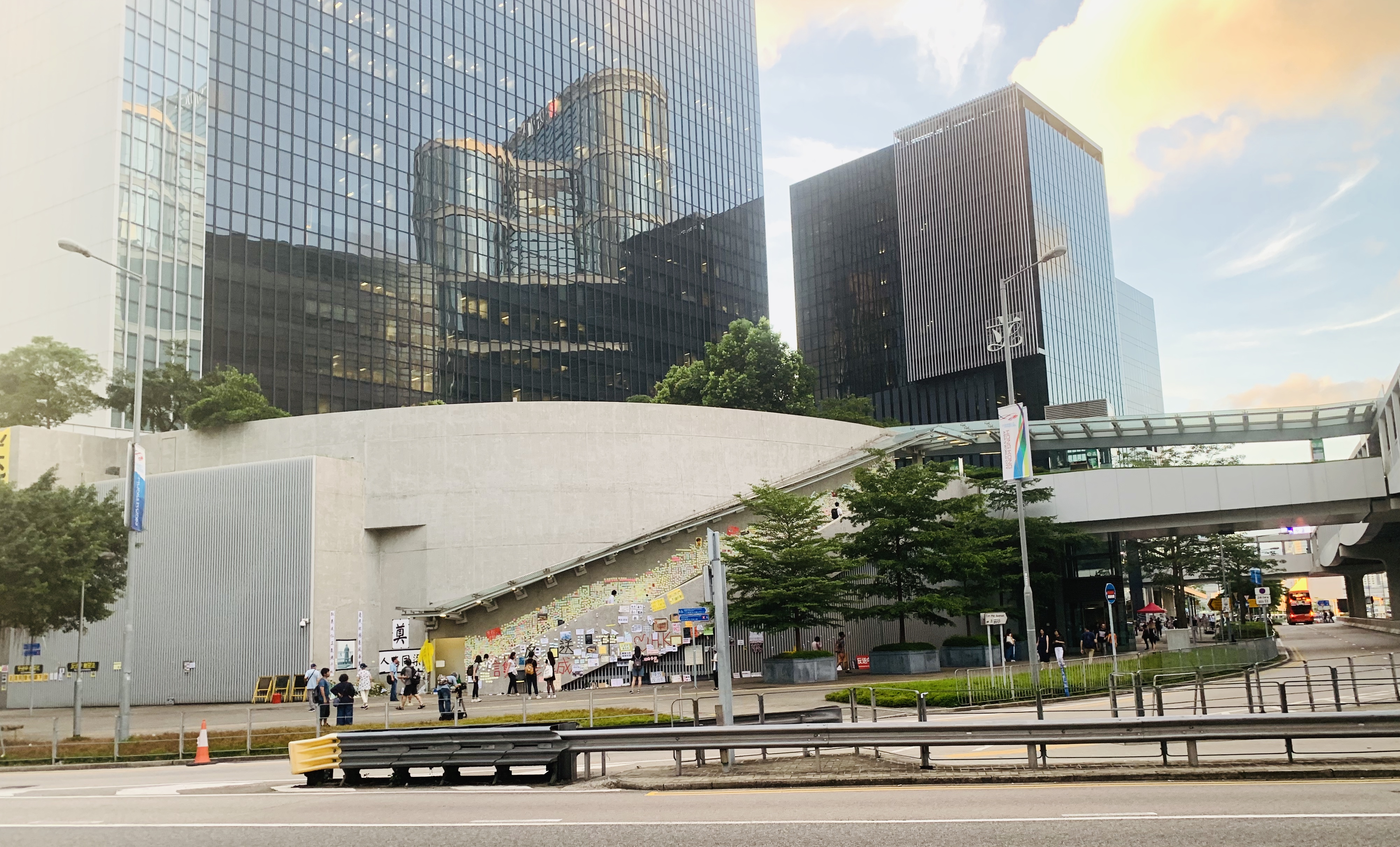 Lennon Wall reappeared in Hong Kong during the anti extradition bill demonstration in 2019